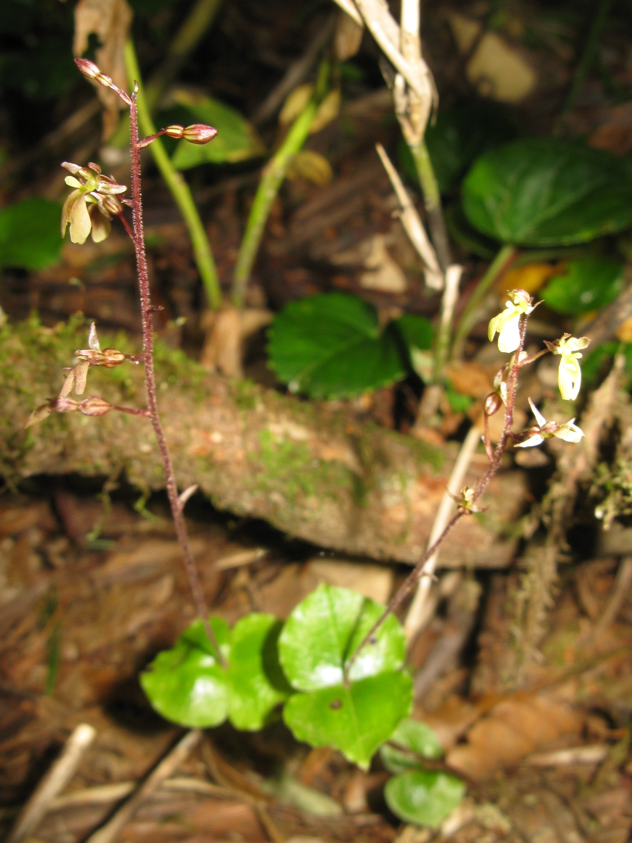 Neottia nipponica, Nihonmatsu city, Fukushima pref., Japan